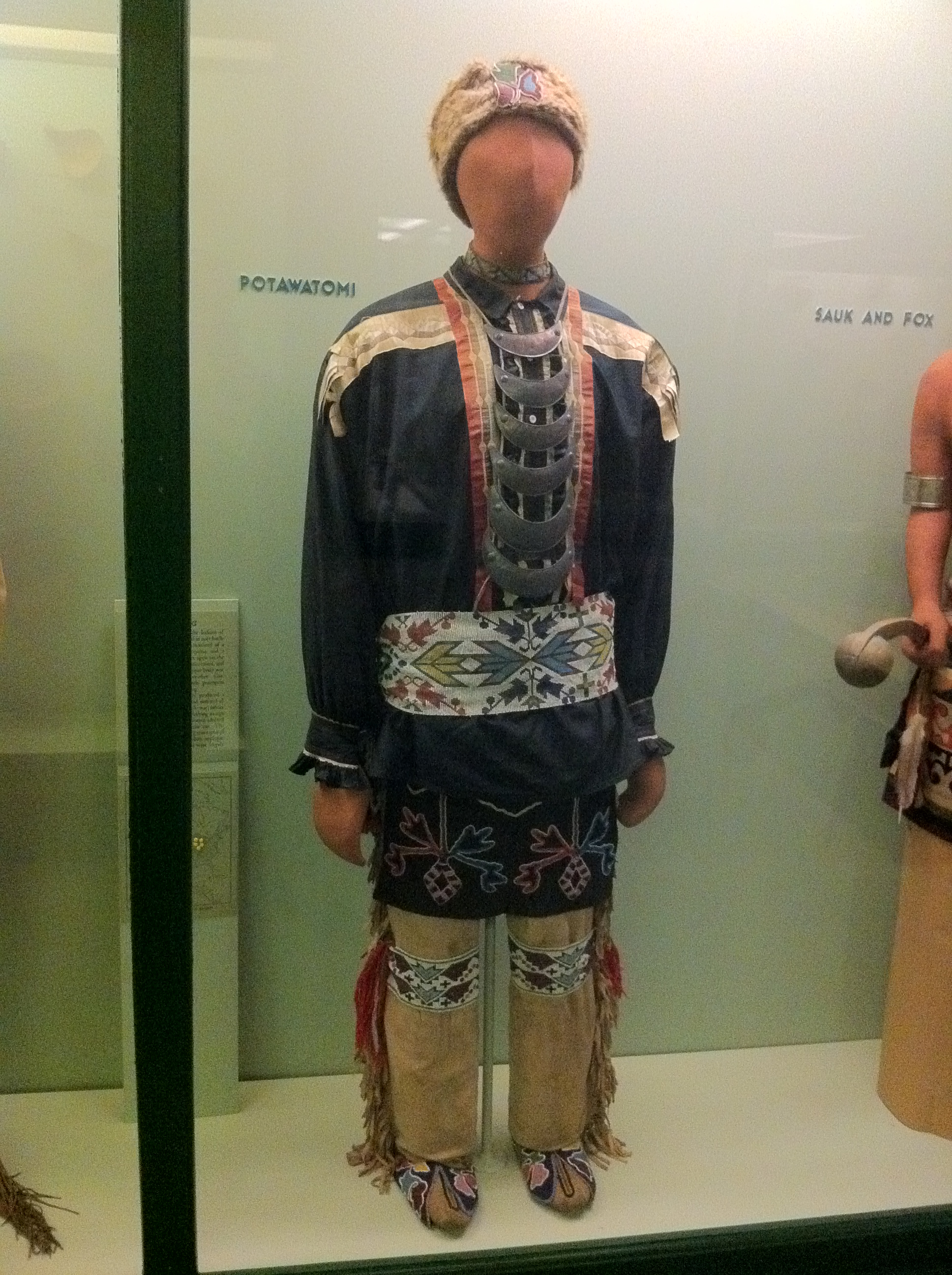 Pottawatomi Fashion at the Field Museum in Chicago